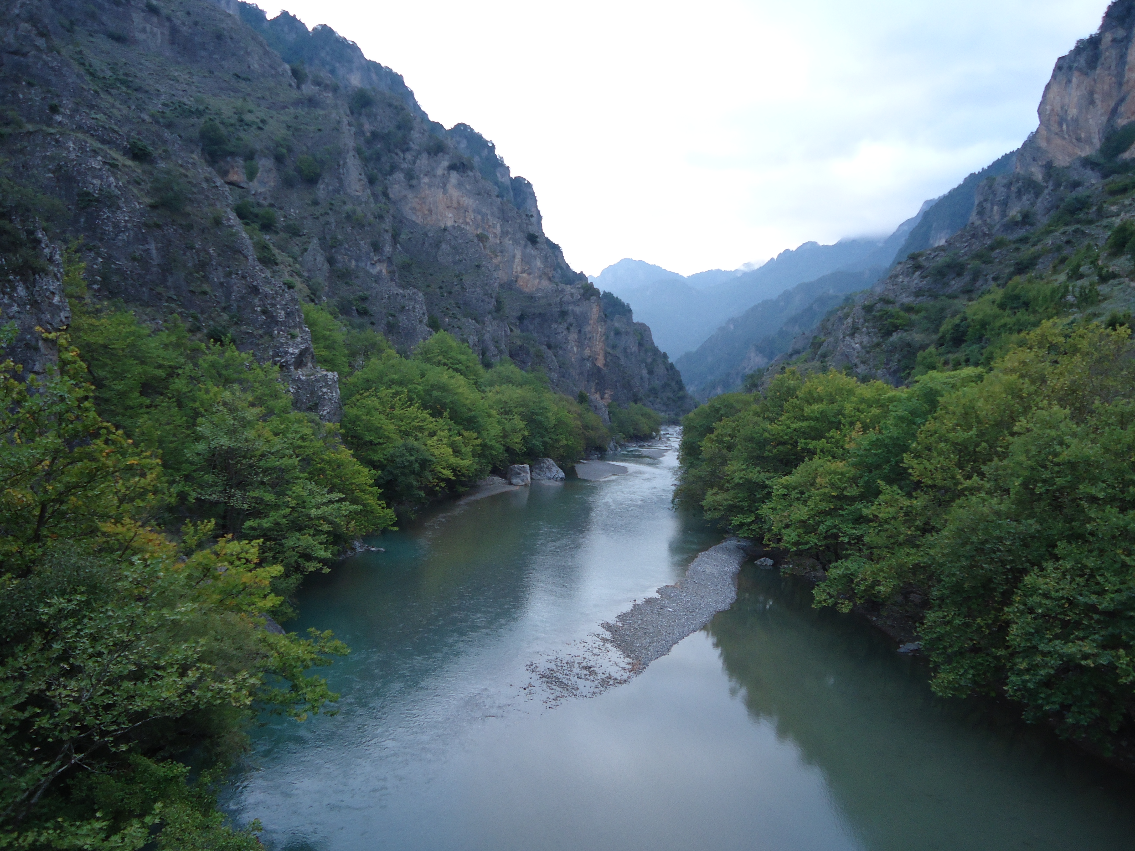 This is a photography of Natura 2000 protected area with ID GR2130001